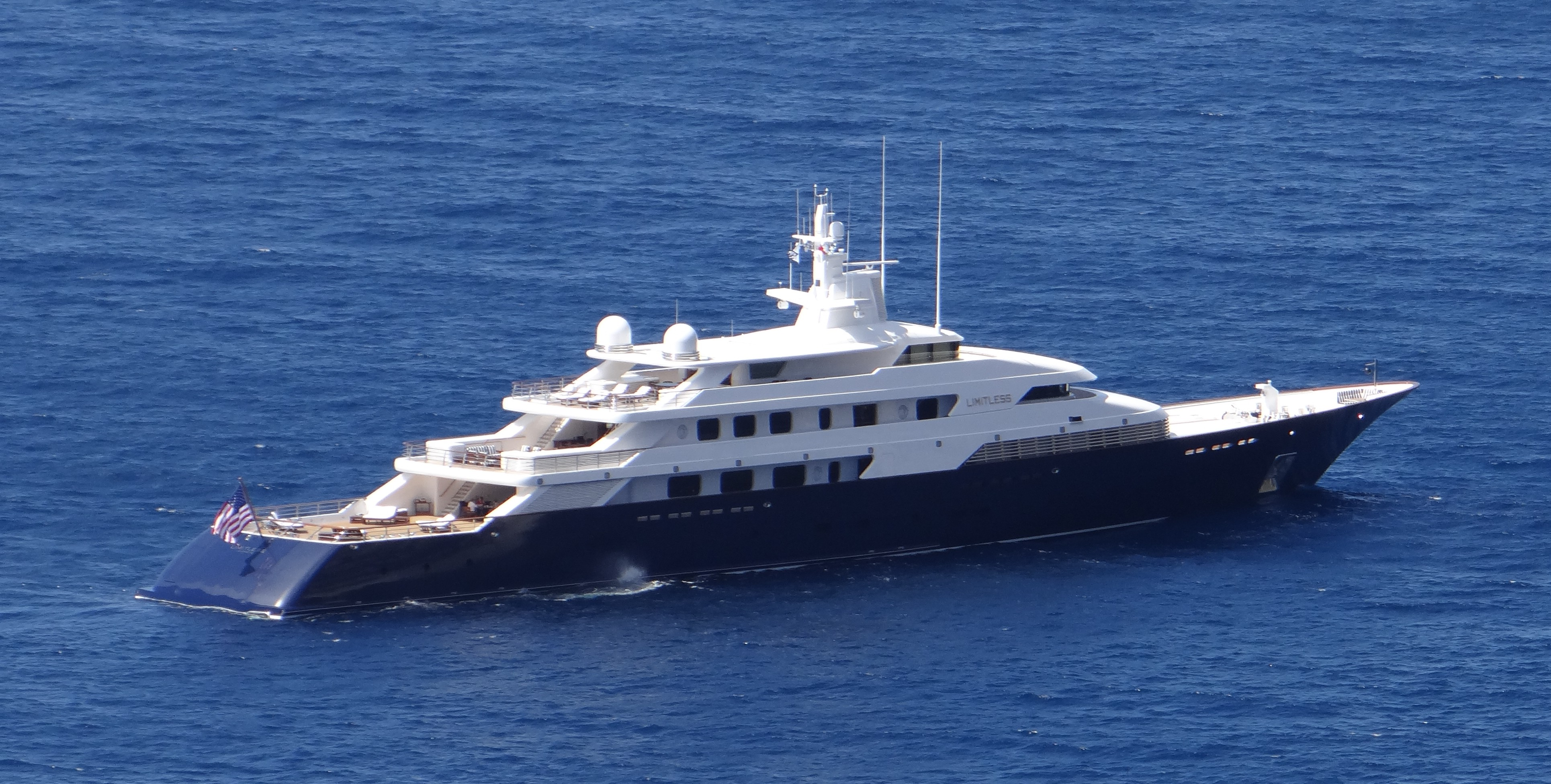 Yacht Limitless near Capri, Italy.